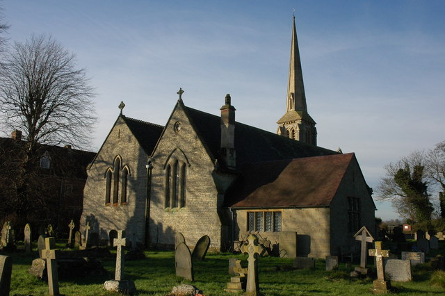 Twigworth Church Twigworth church is dedicated to St Matthew. It was built in 1841-42 to a design by Thomas Fulljames.